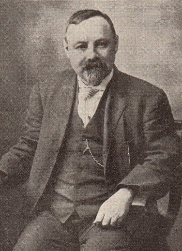 Joseph C. J. Wainwright (1851-1921), American chess problemist from Massachusetts.